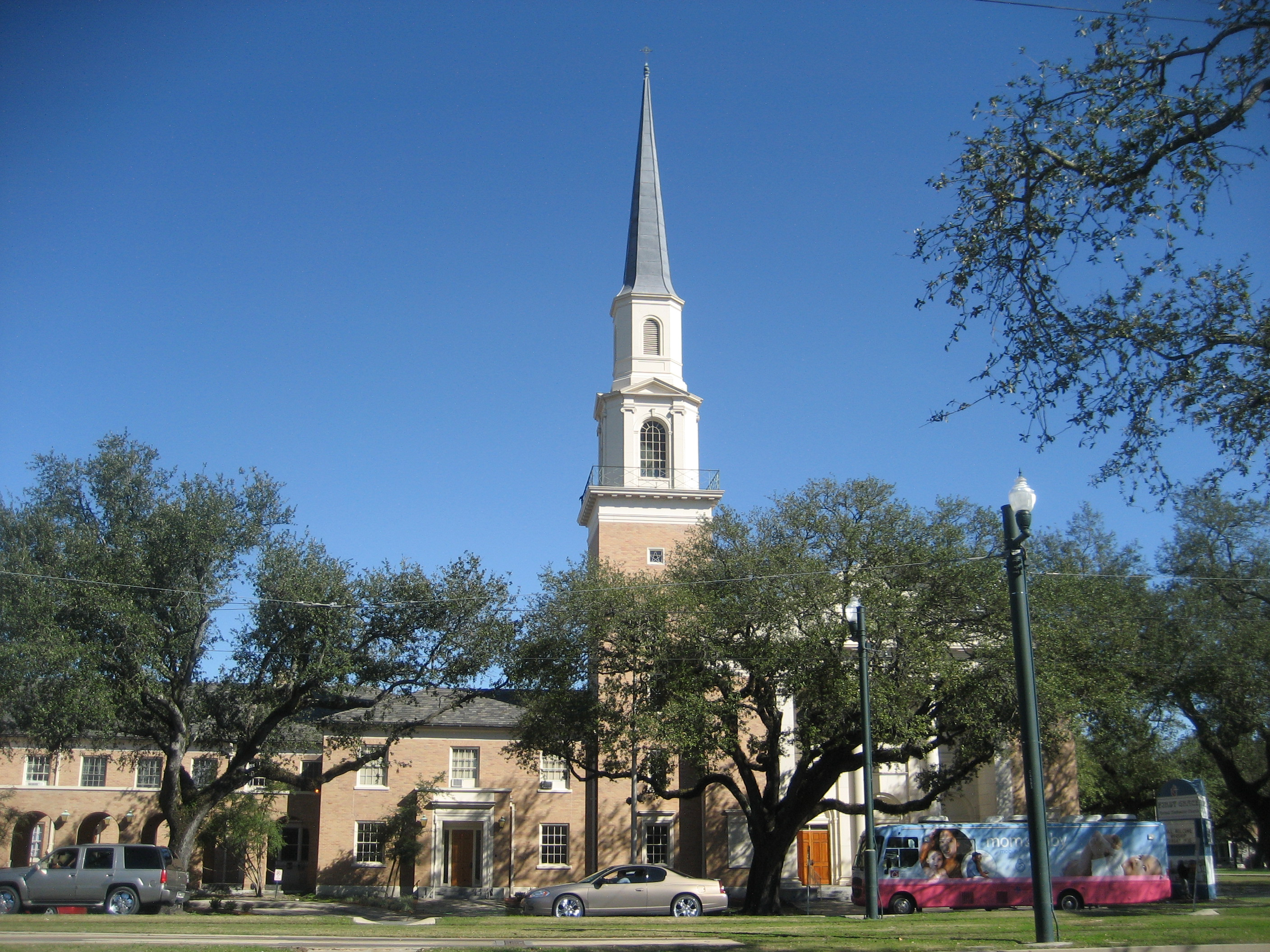 Canal Street, Mid-City New Orleans. First Grace Church